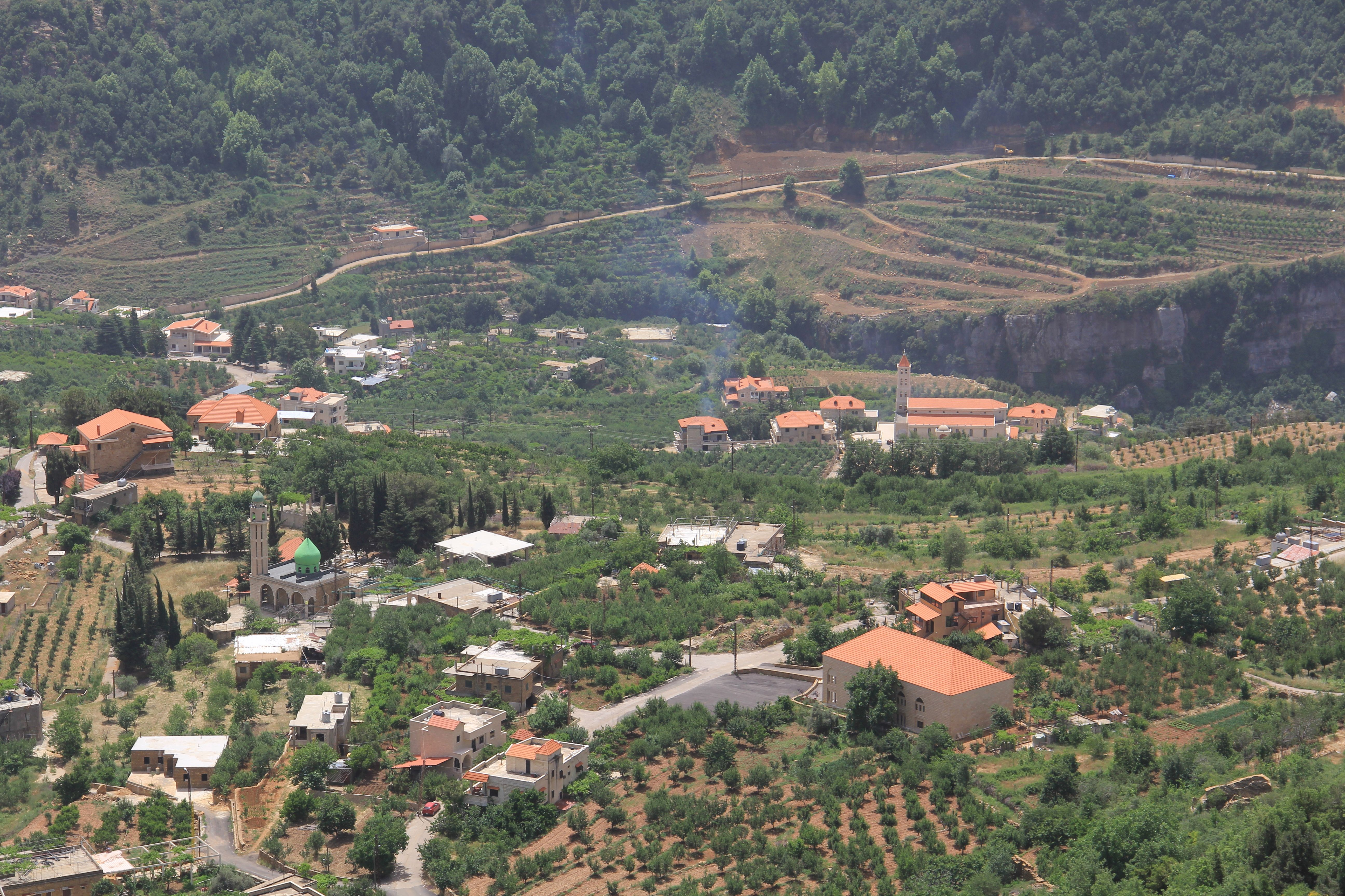 المغيري و يانوح